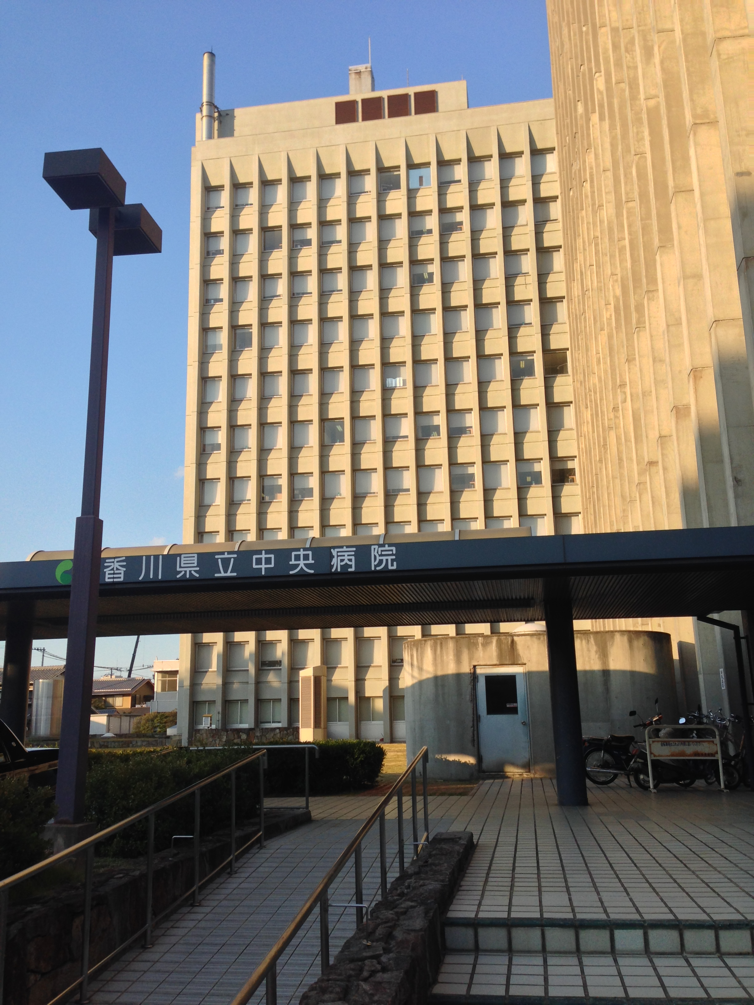 Kagawa Prefectural Central Hospital